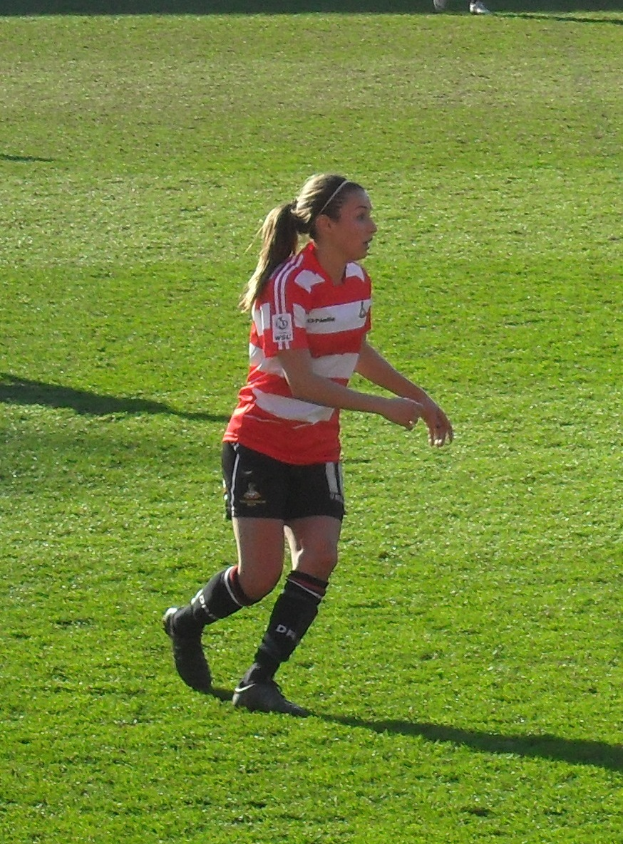 Canadian football midfielder Alyssa Lagonia playing for Doncaster Rovers Belles LFC against Bristol Academy WFC at Keepmoat Stadium on Sunday 18 March 2012. Bristol won the FA WSL Continental Cup match 1-0.